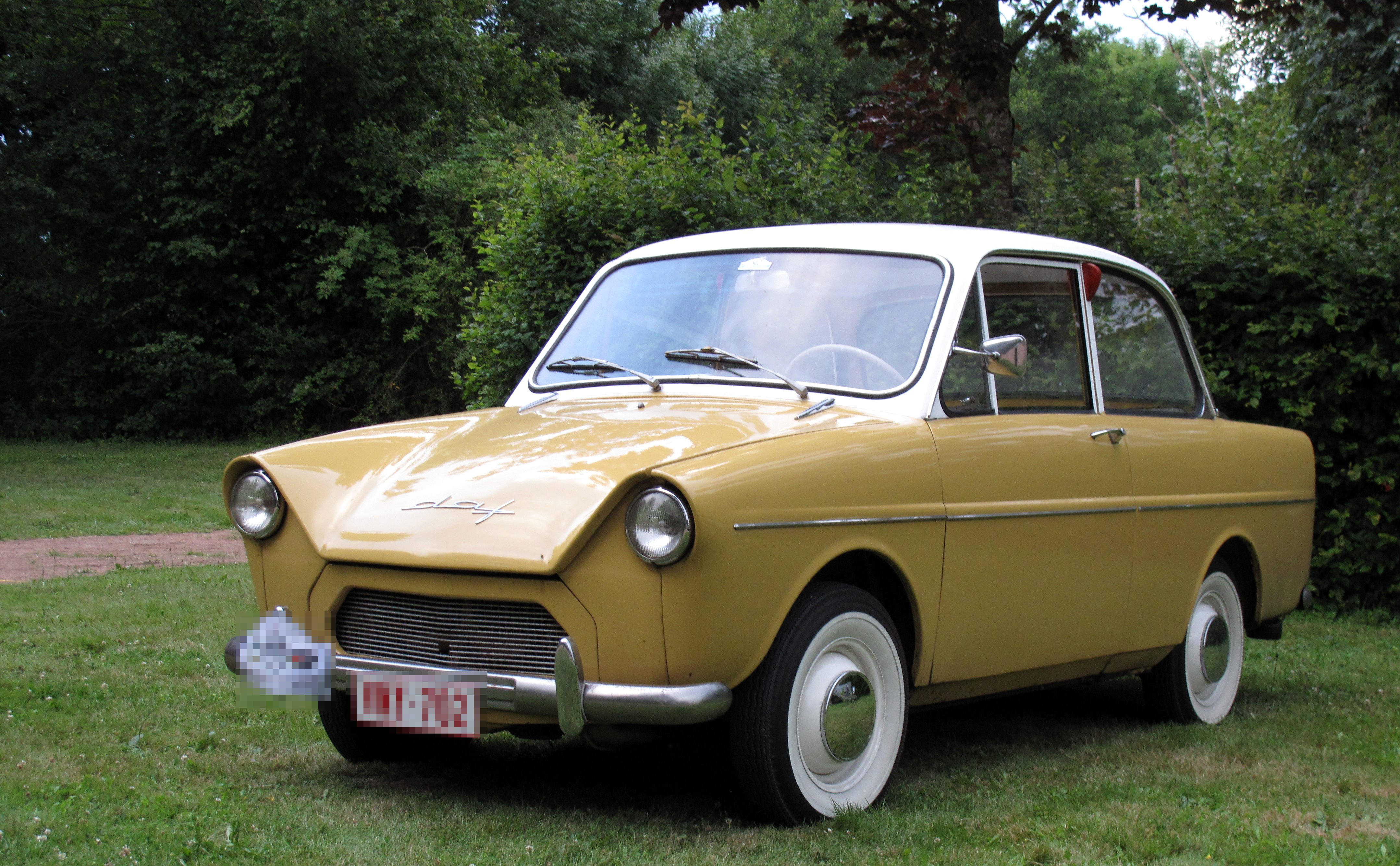 DAF 600 car